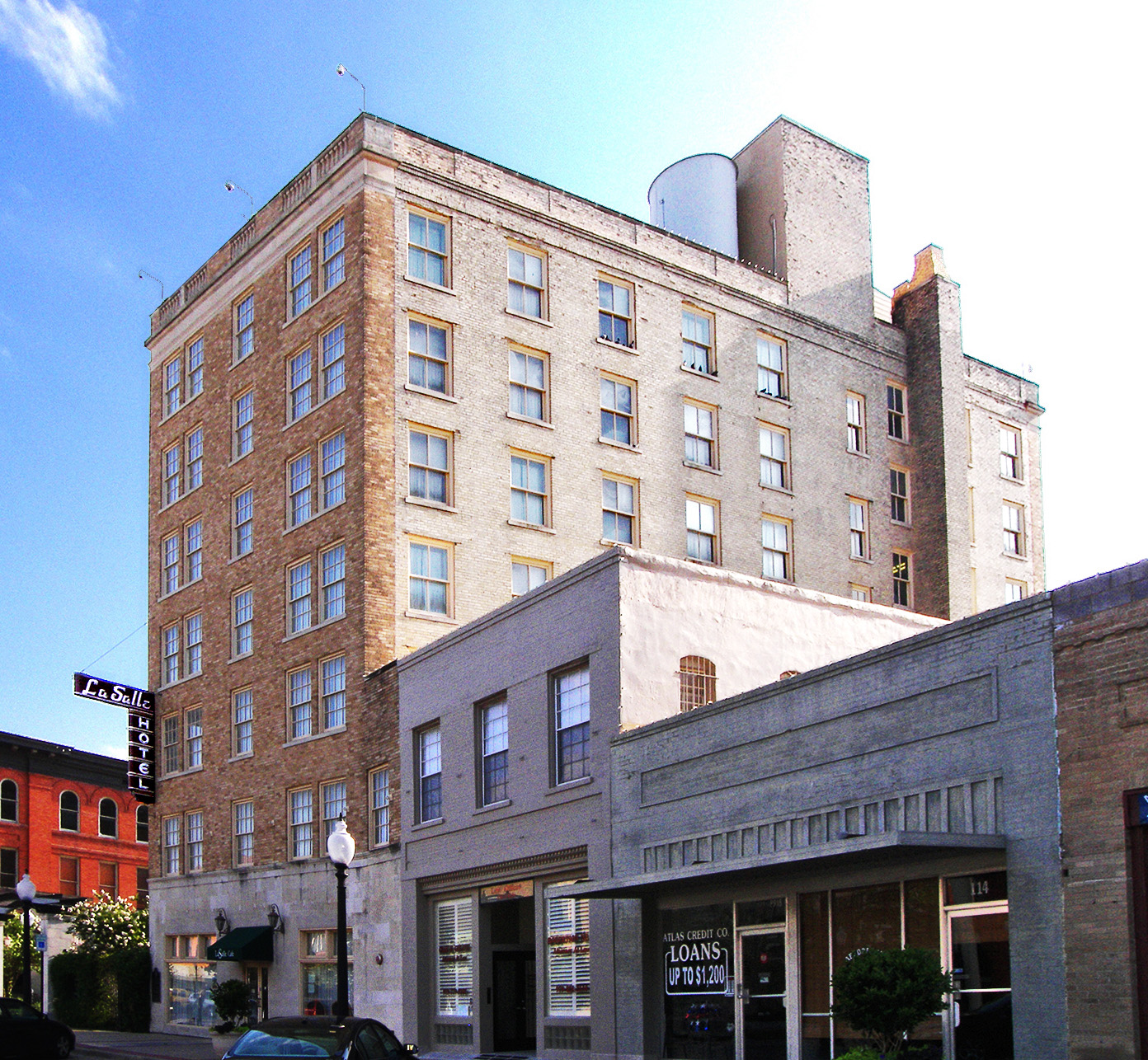 The La Salle Hotel Bryan, Texas, United States was built in 1929. The hotel was listed on the National Register of Historic Places on May 26, 2000 and designated a Recorded Texas Historic Landmark in 2001.